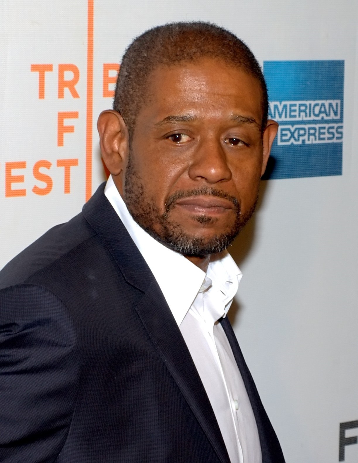 Picture of Academy Award-winning actor Forest Whitaker at the 2010 Tribeca Film Festival.